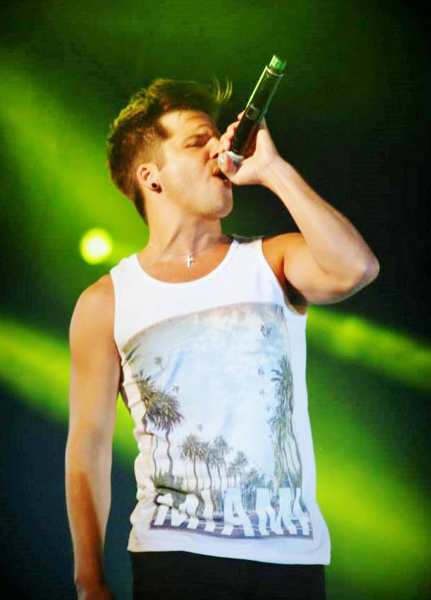 Ivyrise performing in Rennes 2013